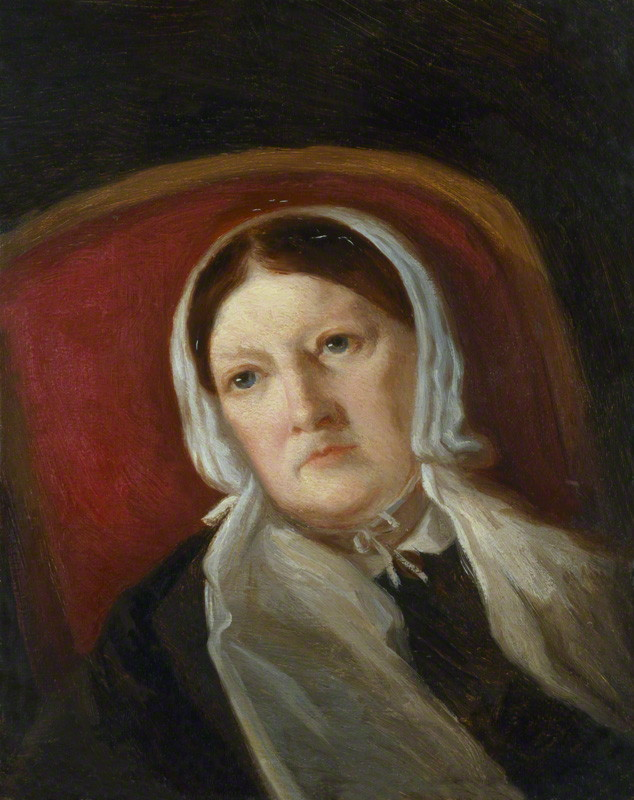 portrait of translator